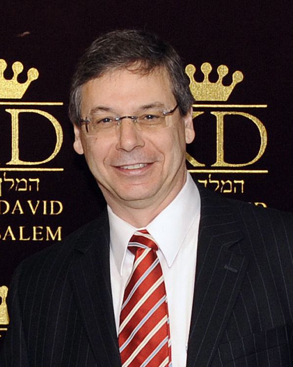 Israeli Deputy Foreign Minister Danny Ayalon at the Strategic Dialogue Opening Session at the Ministry of Foreign Affairs in Jerusalem, Israel February 25, 2010. [State Department Photo/Public Domain]